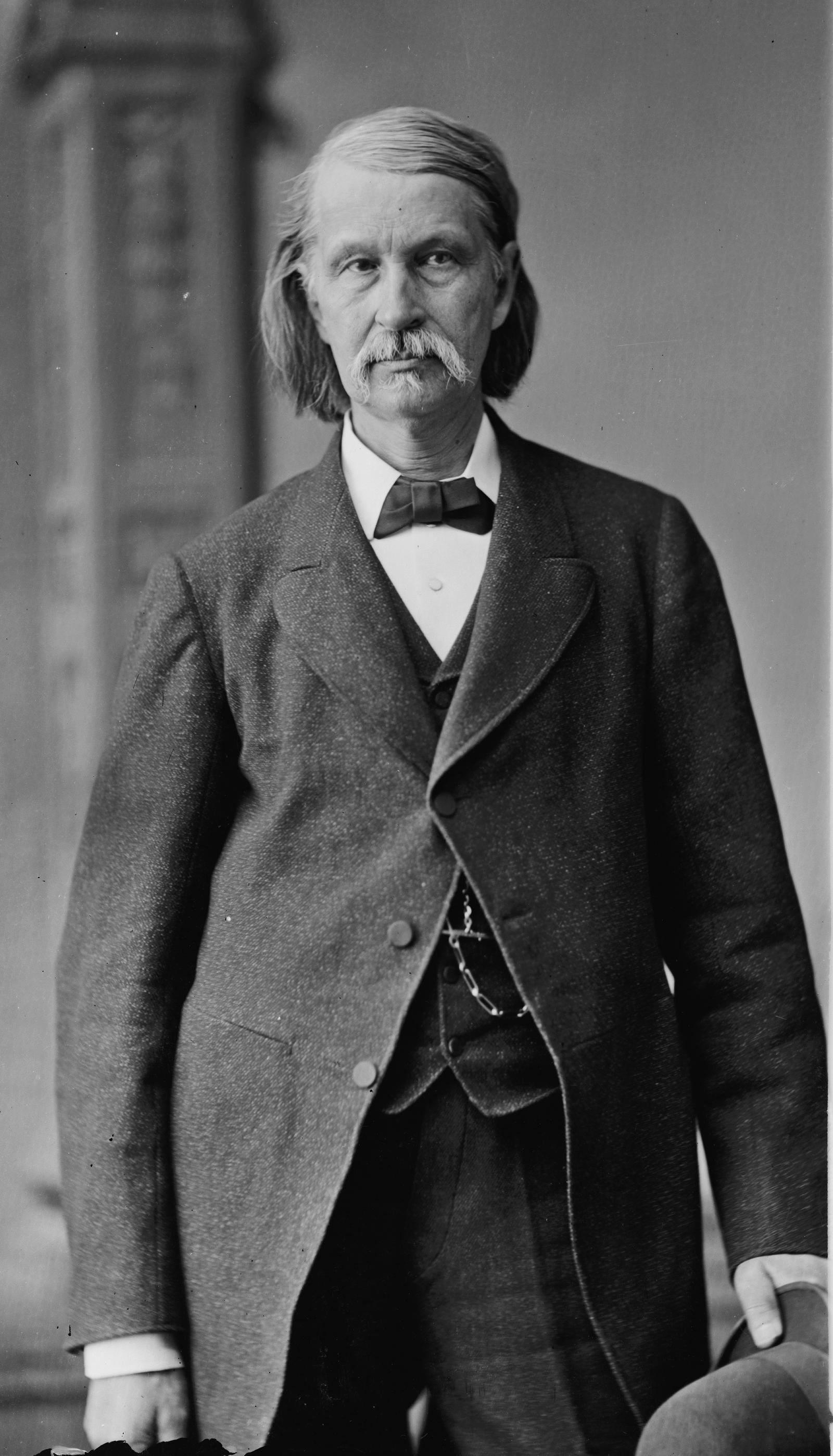 Horace Maynard. Library of Congress description: "Hon. Horace Maynard, Rep from Tenn."